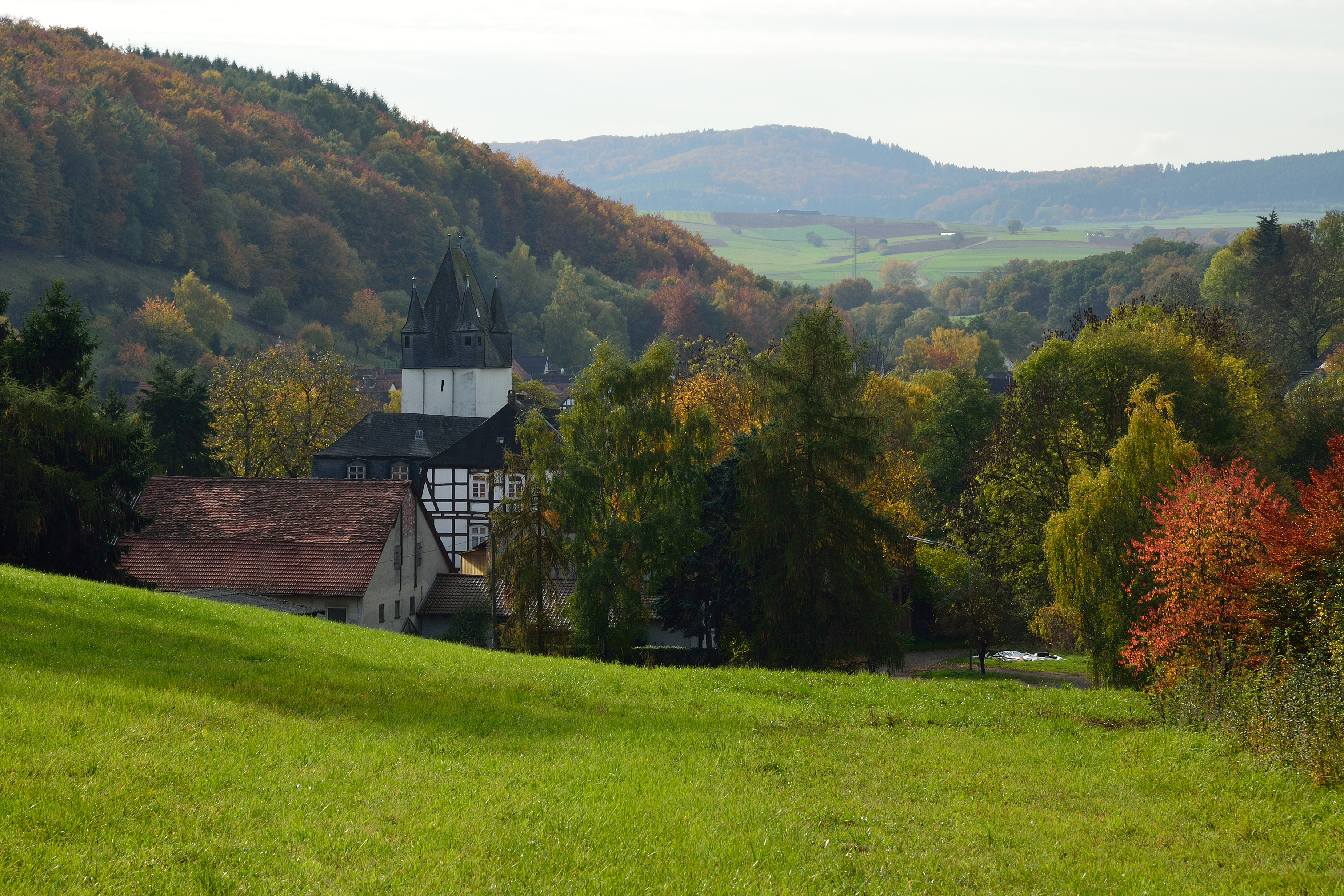 View at the protestant church Amönau, Wetter, Hesse